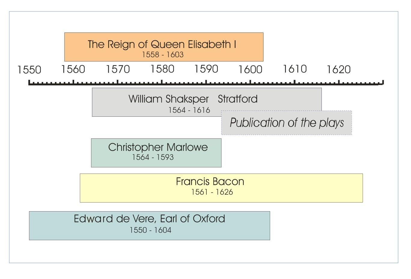 shakespeare-timetable-autorship